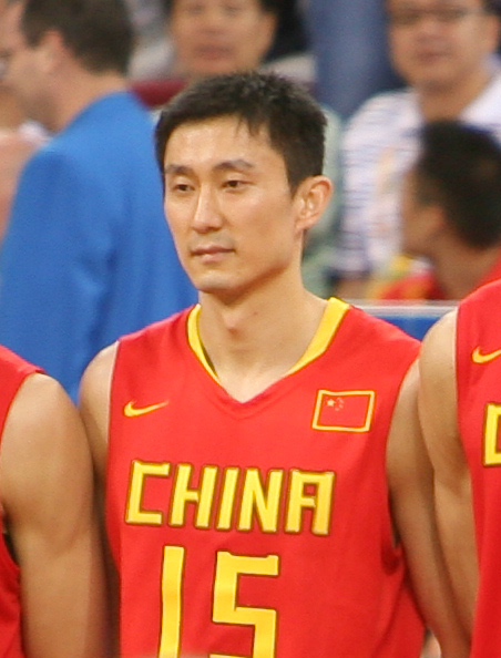 Team China - Men's Basketball - Beijing 2008 Olympics